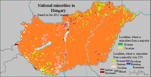 National minorities in Hungary.